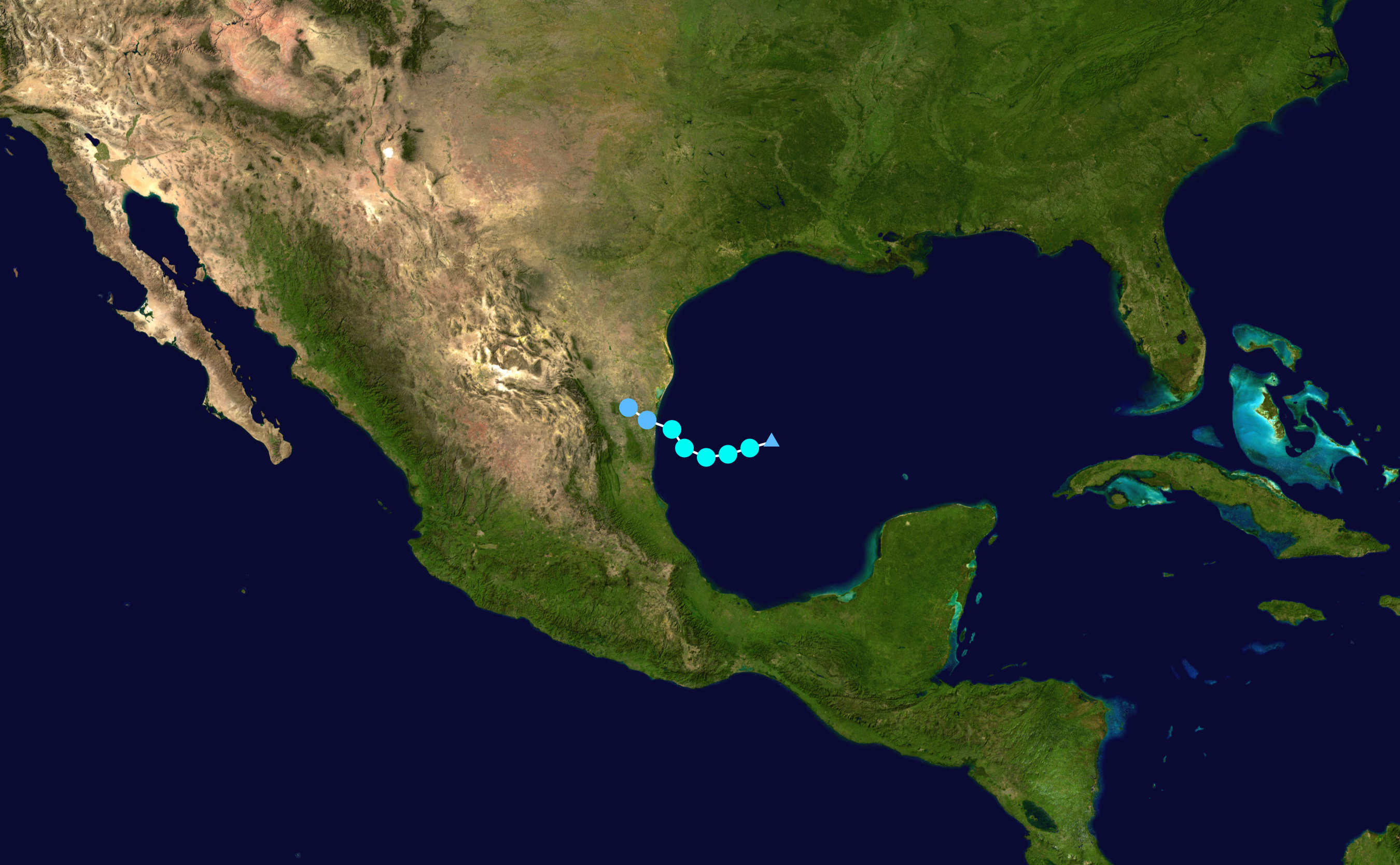 Track map of Tropical Storm Fernand of the 2019 Atlantic hurricane season. The points show the location of the storm at 6-hour intervals. The colour represents the storm's maximum sustained wind speeds as classified in the Saffir–Simpson scale (see below), and the shape of the data points represent the nature of the storm, according to the legend below. Saffir–Simpson scale Tropical depression≤38 mph≤62 km/h Category 3111–129 mph178–208 km/h Tropical storm39–73 mph63–118 km/h Category 4130–156 mph209–251 km/h Category 174–95 mph119–153 km/h Category 5≥157 mph≥252 km/h Category 296–110 mph154–177 km/h Unknown Storm type Tropical cyclone Subtropical cyclone Extratropical cyclone / Remnant low / Tropical disturbance / Monsoon depression